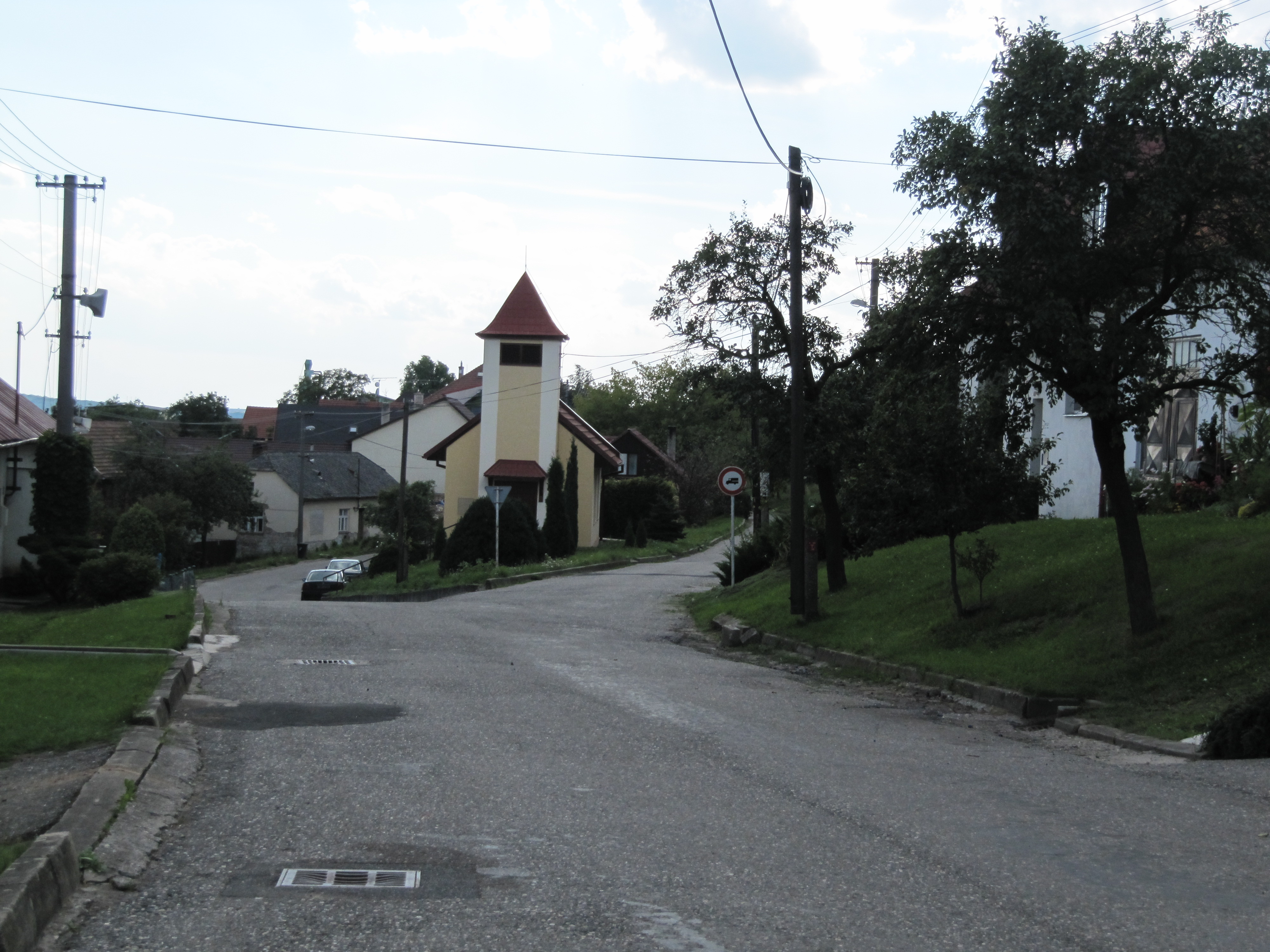 Kelníky in Zlín District, Czech Republic. Center and St.-Zdislava-chapel.